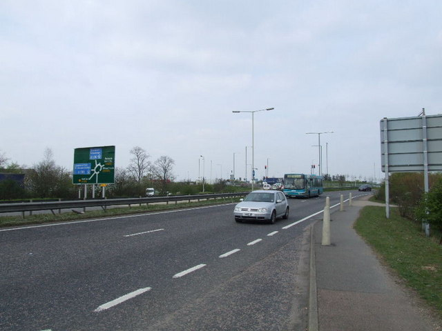 The A414 junction with the A1